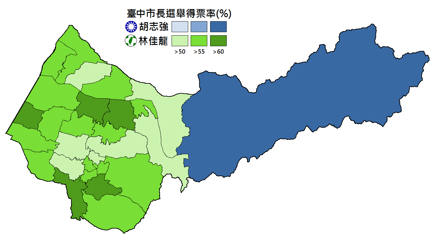 Taichung 2014